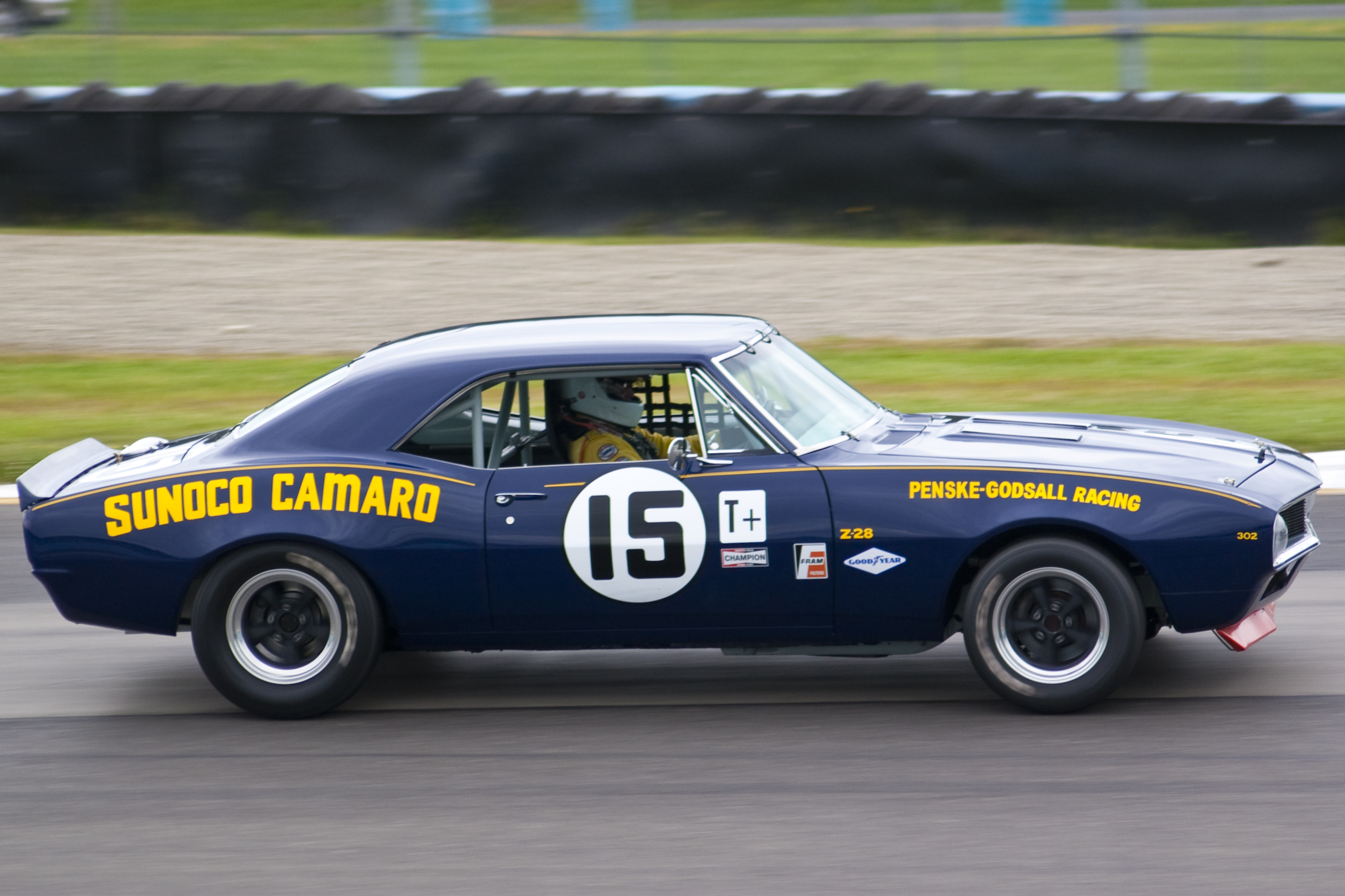 15 - 1967 Chevrolet Camaro Z/28 (Sunoco) Pat Ryan Ashville, NC